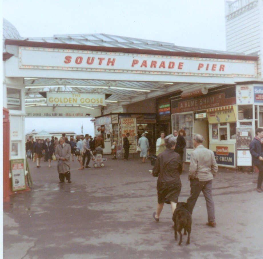 Photo of South Parade Pier in Southsea, Hants., England taken in September 1967 by myself.